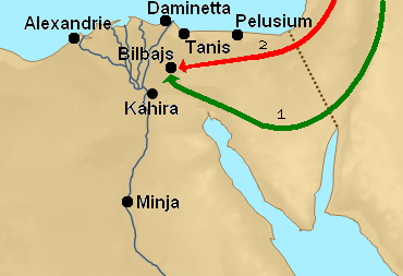 1 crusader invasion to egypt